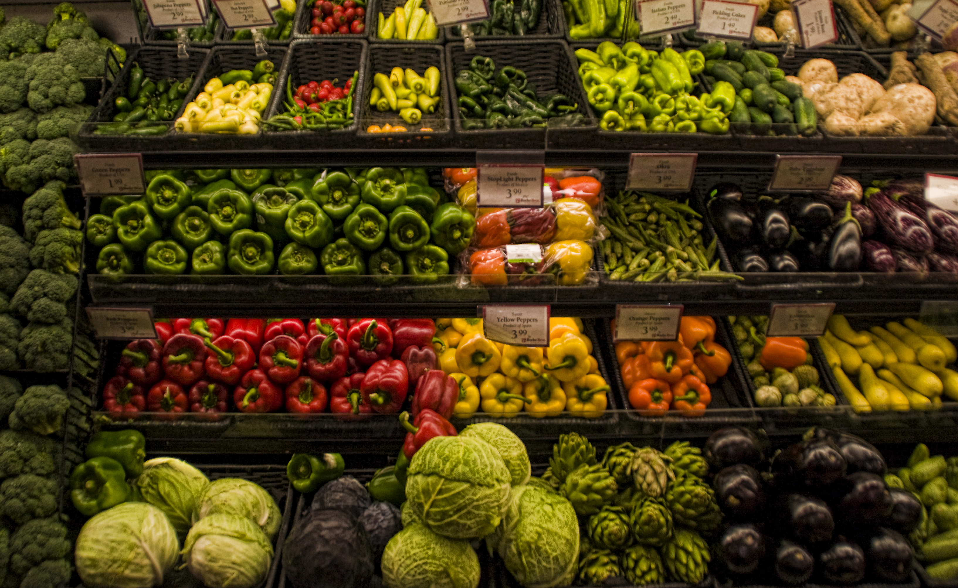 veggies